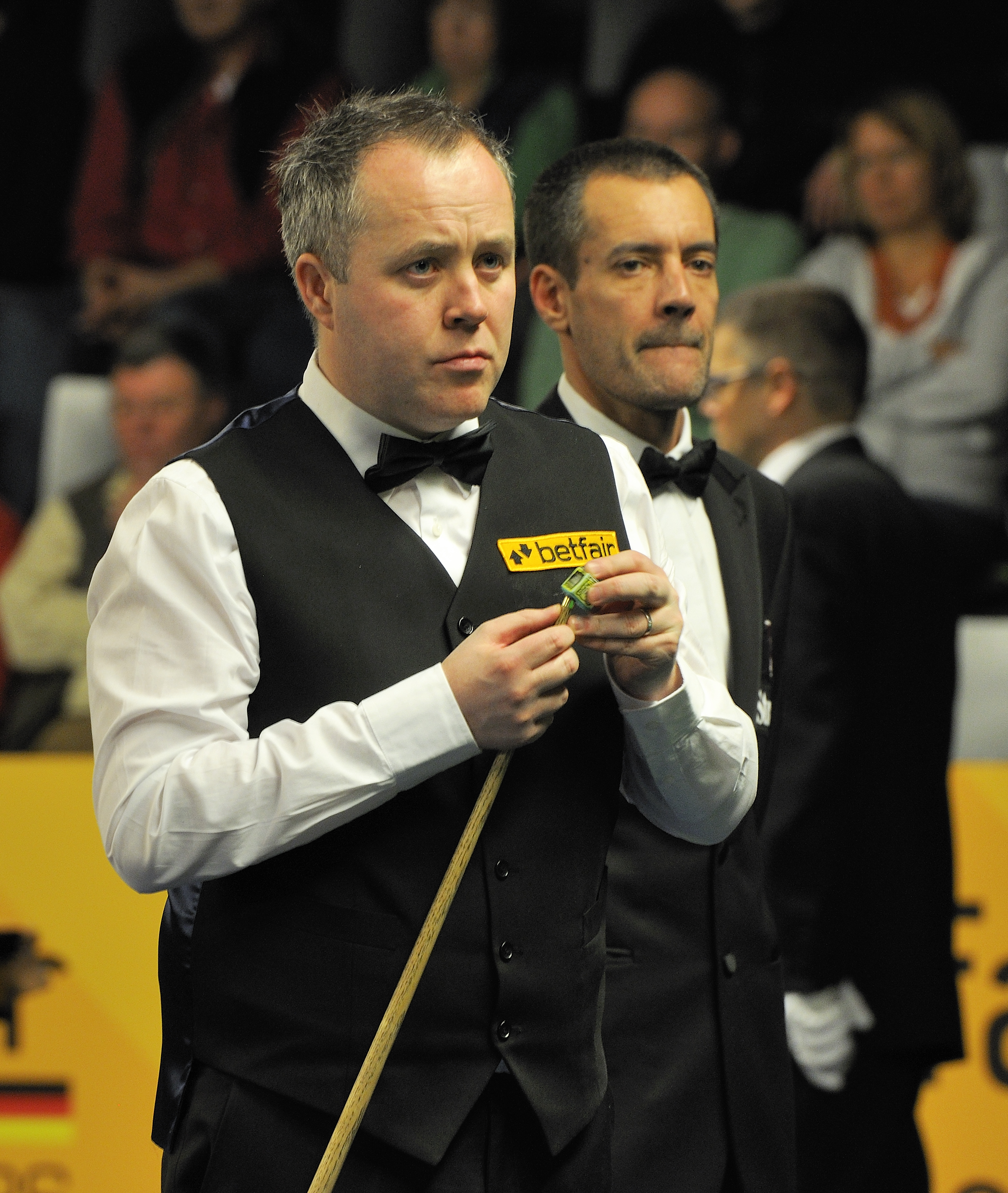 Picture taken in Berlin during the Snooker German Masters in 2013. John Higgins, Olivier Marteel.